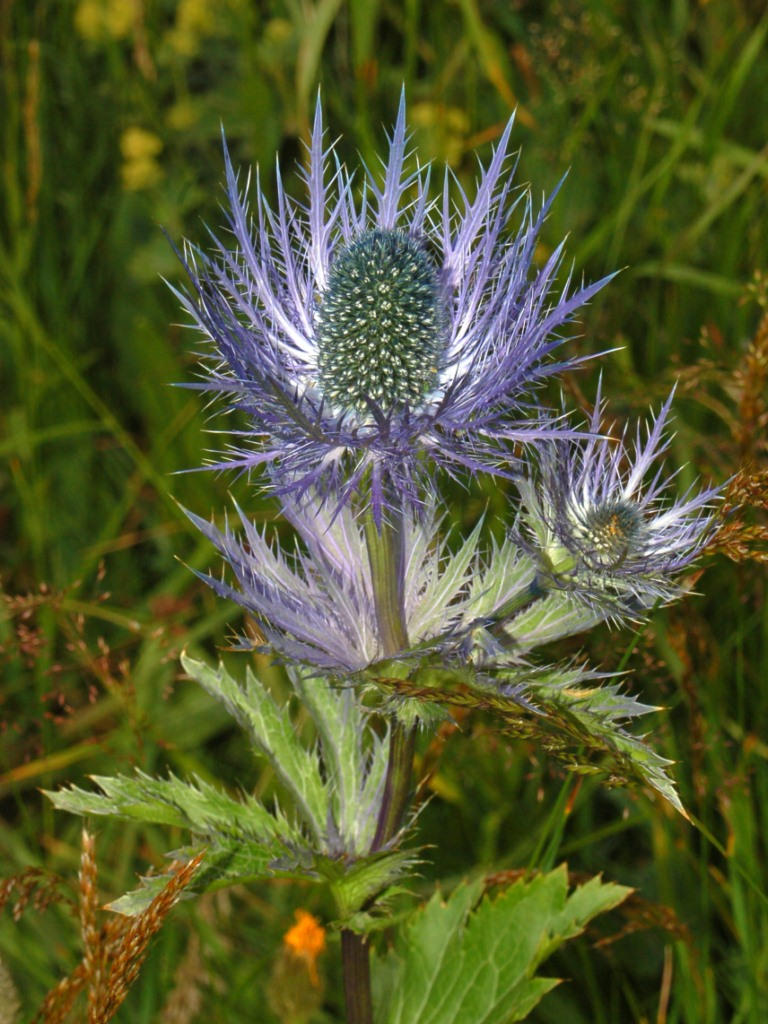 Eryngium alpinum - Col du Lautaret, France